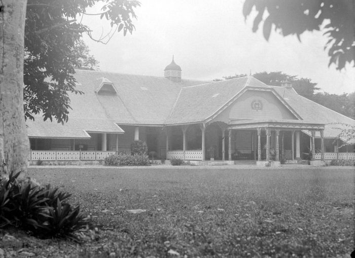 The residency of the governor of Maluku, J. Tideman